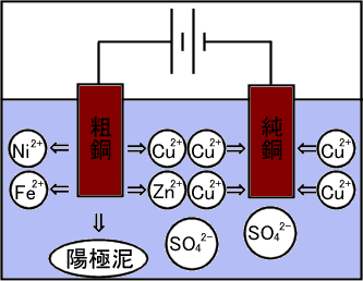 Electrolysis Refining